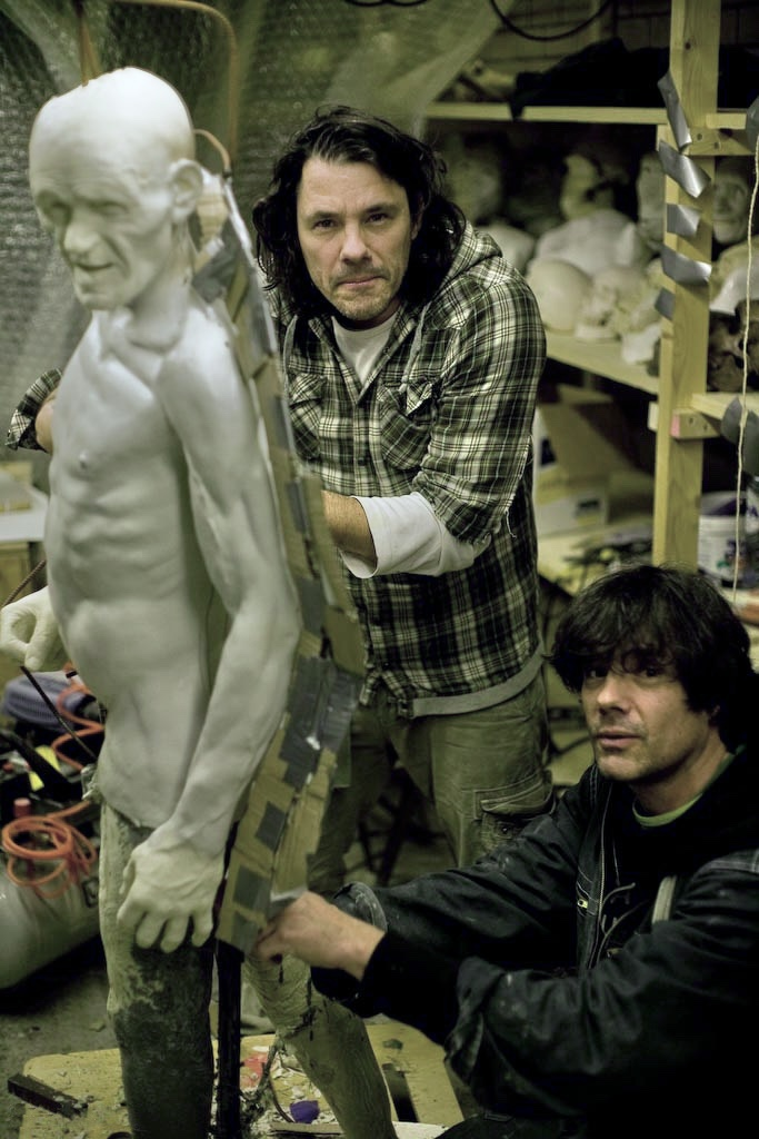 Ötzi while being constructed by the Kennis Brothers, 2011